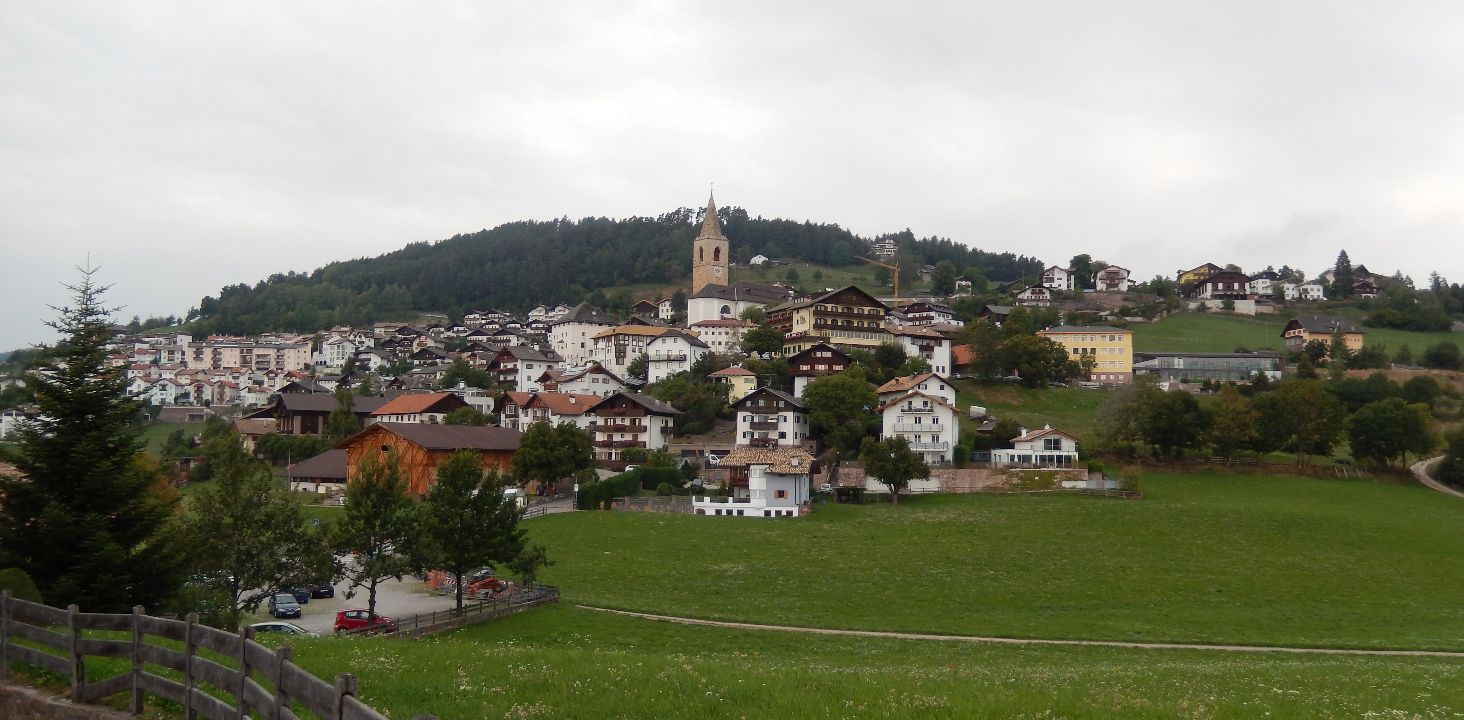 View of Jenesien near Bolzano, Italy.